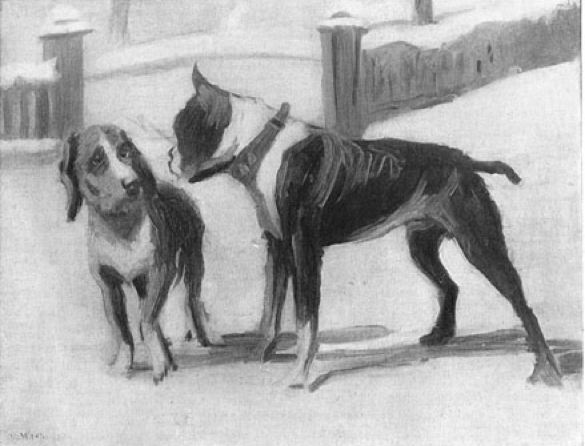 Black and white photograph of the painting The Tenant's Dog by Hilda Ward, ca. 1910